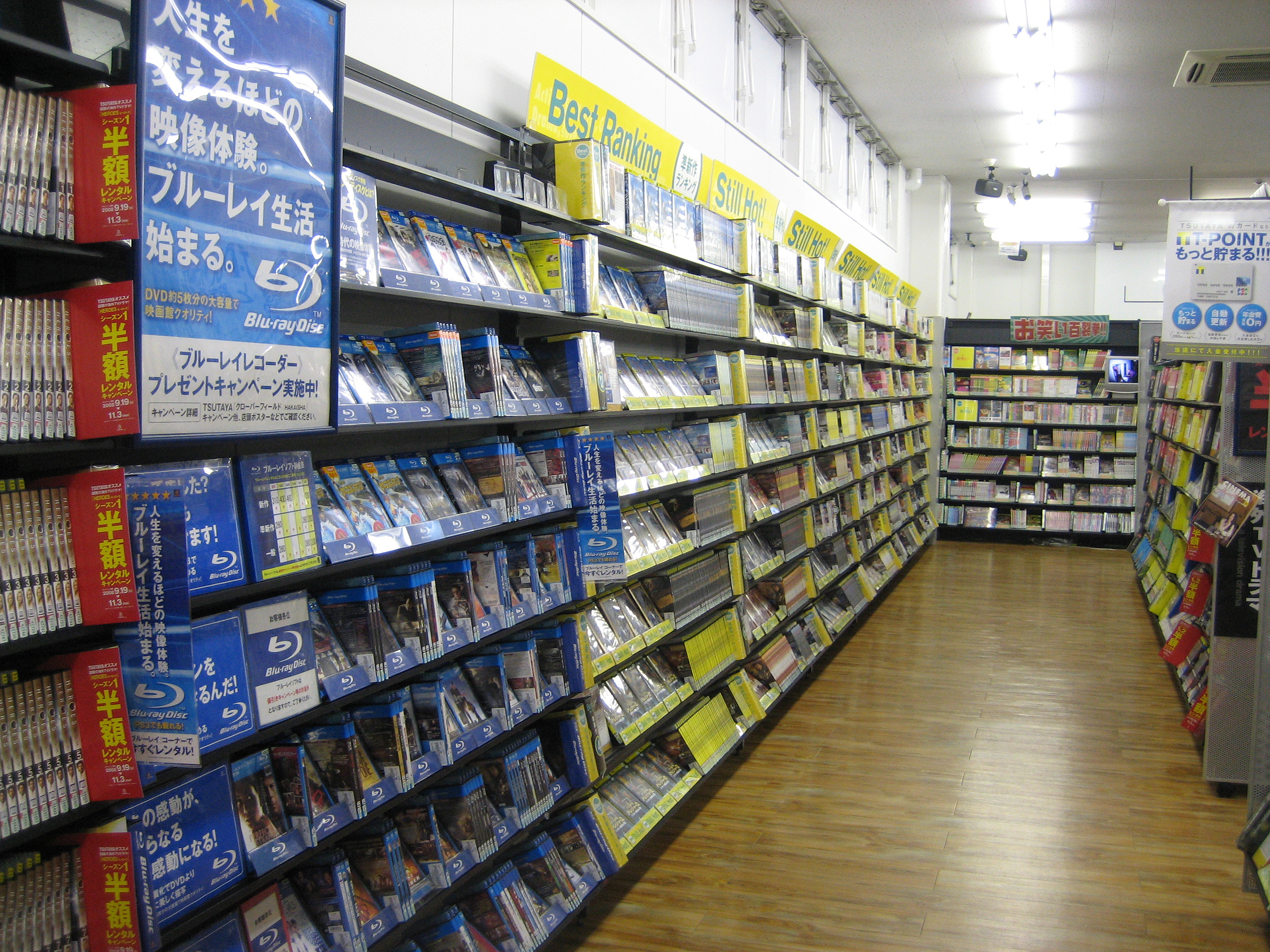 Inside of rental video shop in Japan.